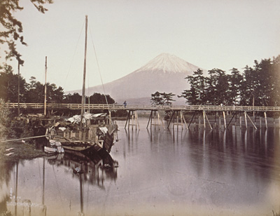 View of Tagonura Bridge and Mount Fuji, hand-coloured albumen print